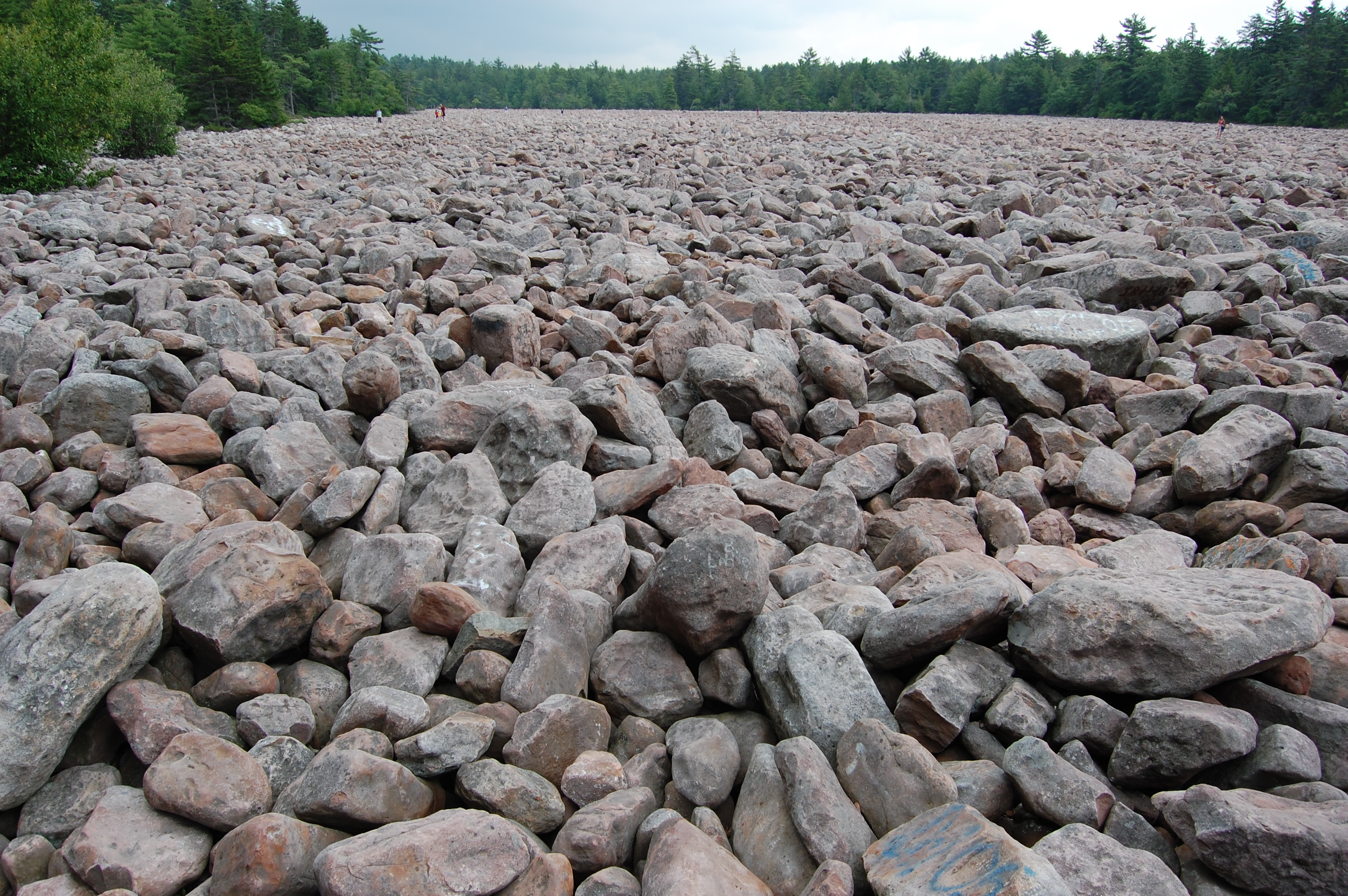 The boulder field at Hickory Run State Park in Pennsylvania, PA, USA. Note the people in the distance for scale.